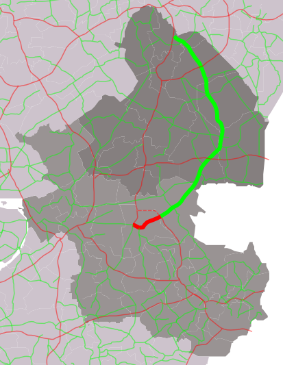 Map of Overijssel and Drenthe with Dutch rijksweg 834 and provincial road no. 34